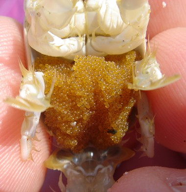 A photo of the underside of a female sand crab, with eggs. Taken in San Diego on June 16, 2006 by Woody Thrower. As the photographer, I am releasing this photograph into the public domain. I enjoy and appreciate being notified when my work is used, and encourage attribution.